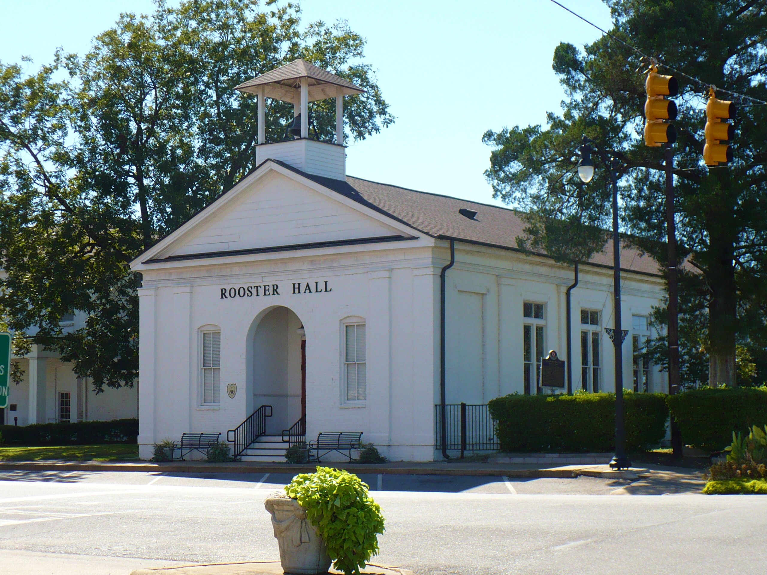 Rooster Hall in Demopolis, Alabama, United States. Built as the Presbyterian church in 1843, it was used for a short time during Federal Reconstruction as the Marengo County courthouse. It was sold by the church in 1869. After being acquired by the city, it was leased to the Demopolis Opera Association in 1876 and used as the Demopolis Opera House until 1902. In 2010, it continues to be owned by the city and used for a variety of functions.